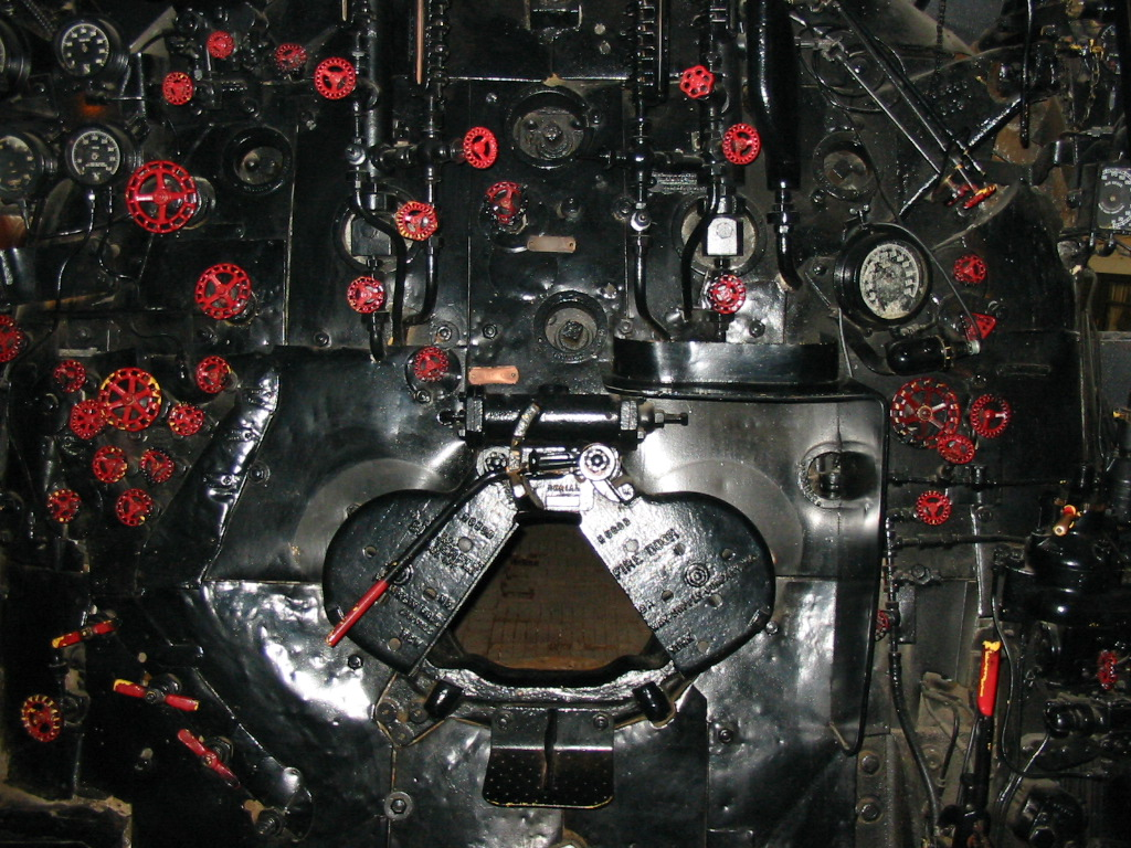 The backhead (controls) of Union Pacific Big Boy #4017 at the National Railroad Museum, Green Bay, WI